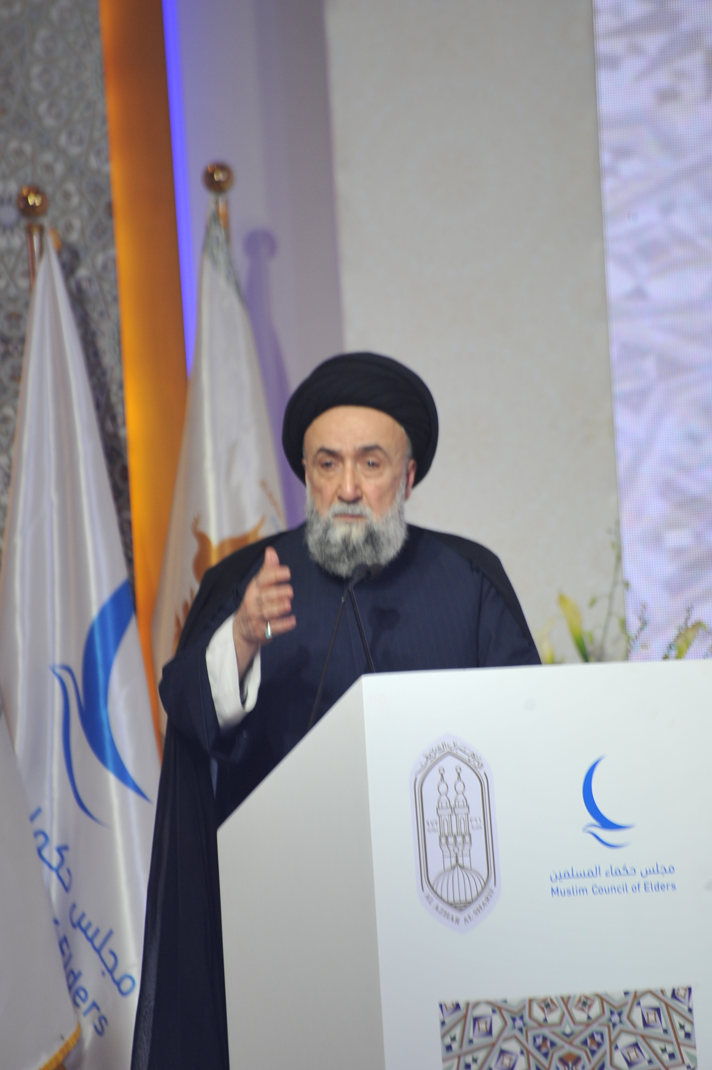 Ali al-Amin